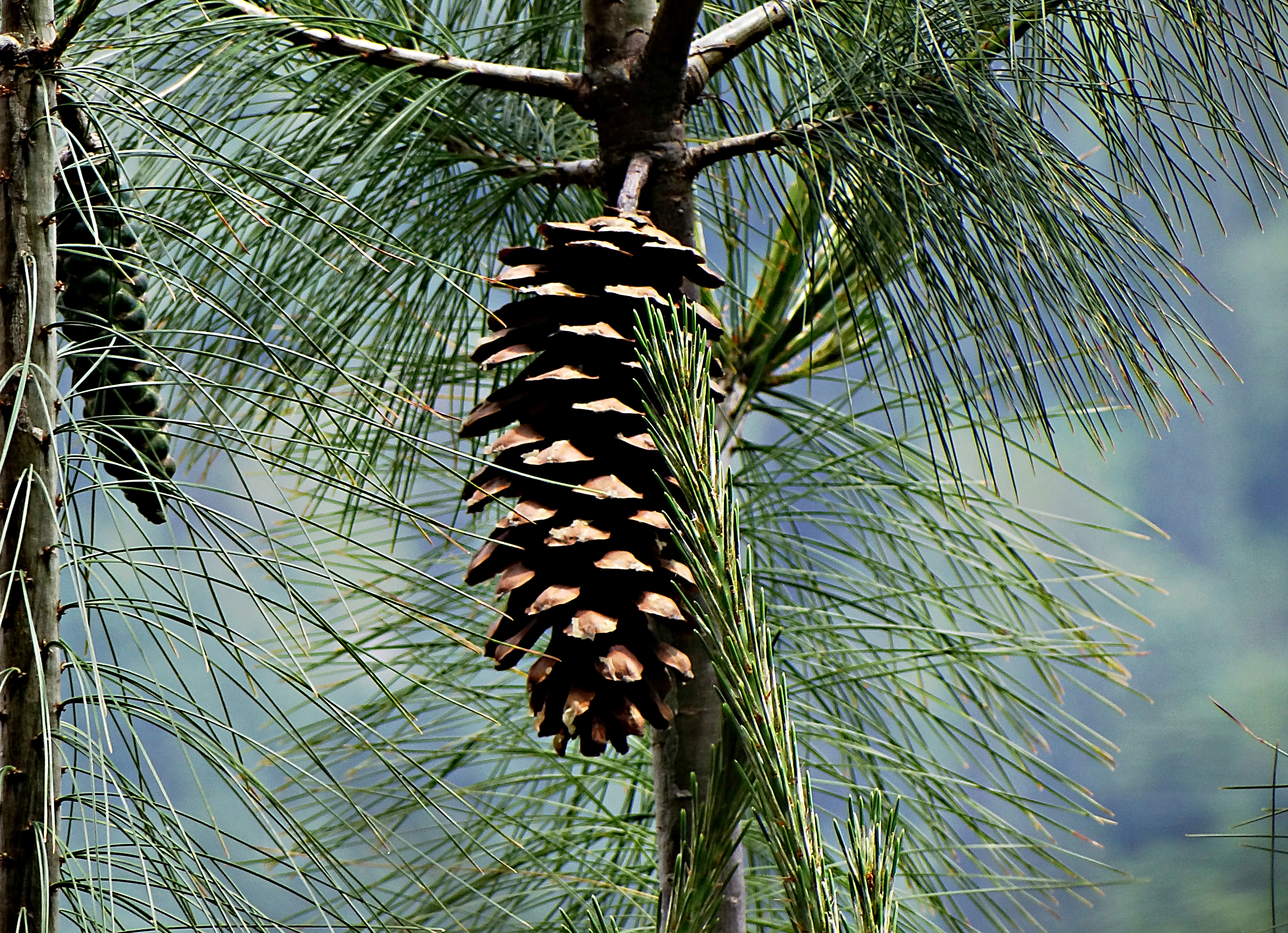 Pinus wallichiana cone; Manali, Himachal Pradesh, India.